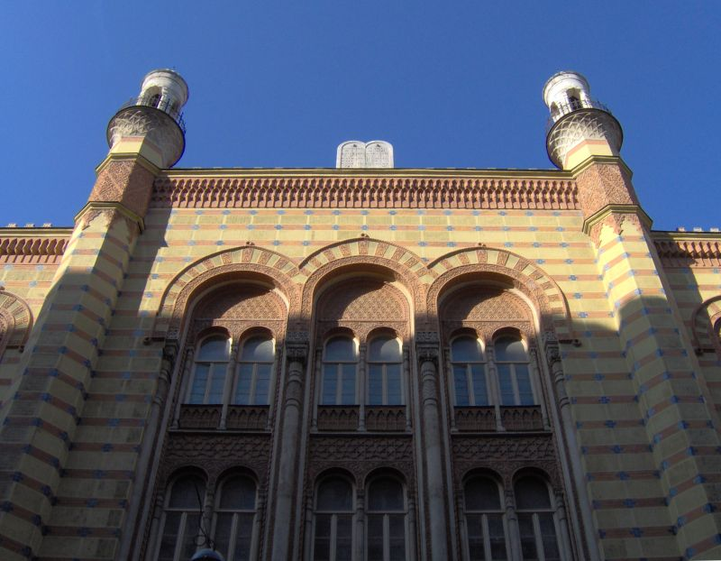 Rumbach street synagogue, Budapest, Hungary